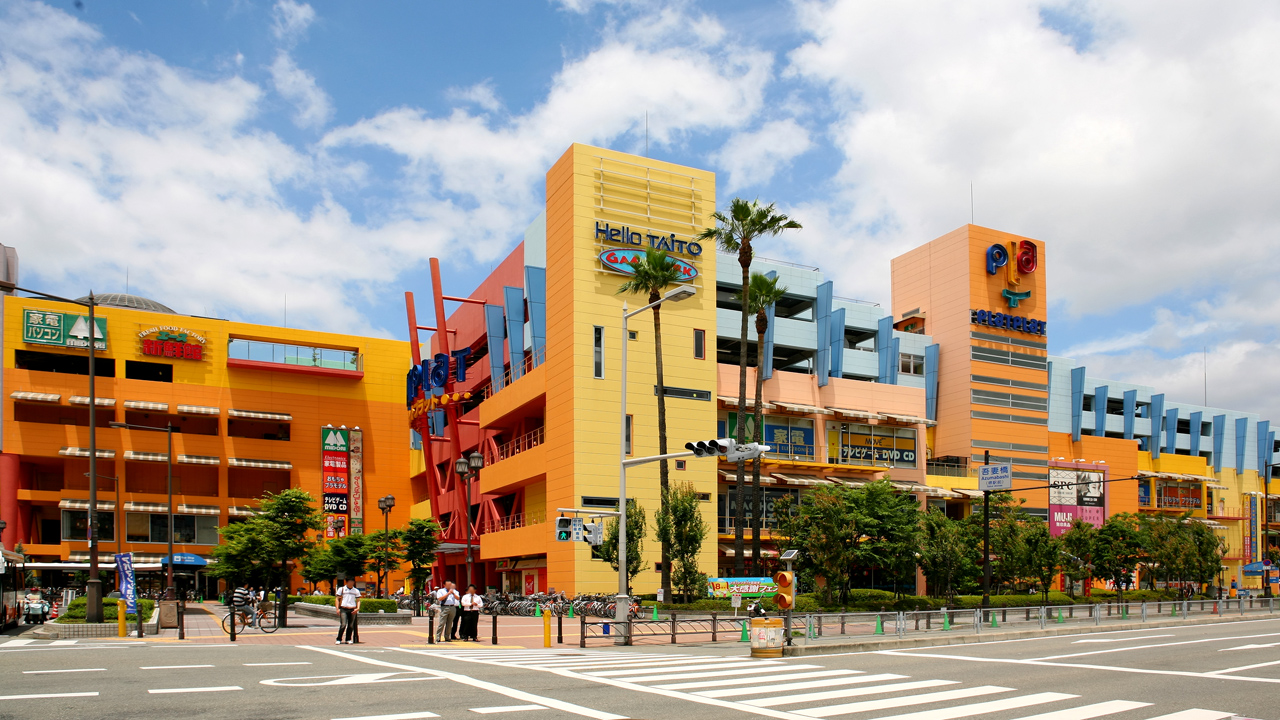 The shopping mall PLATPLAT is next to the Nankai Sakai Station.